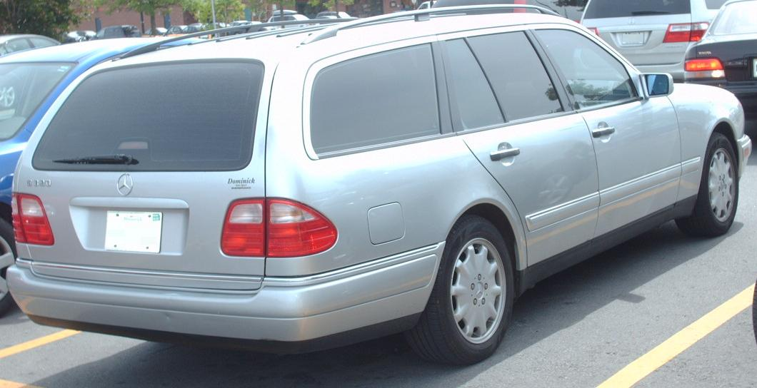 1996-1999 Mercedes-Benz E320 Wagon photographed in Montreal, Quebec, Canada.